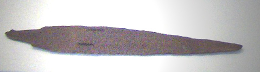 Bronze dagger of King Anitta, found at Kültepe; length : 29 cm; Period of the Assyrian Trade Colonies; 18th c. BC; Museum of Anatolian Civilizations, Ankara, Turkey